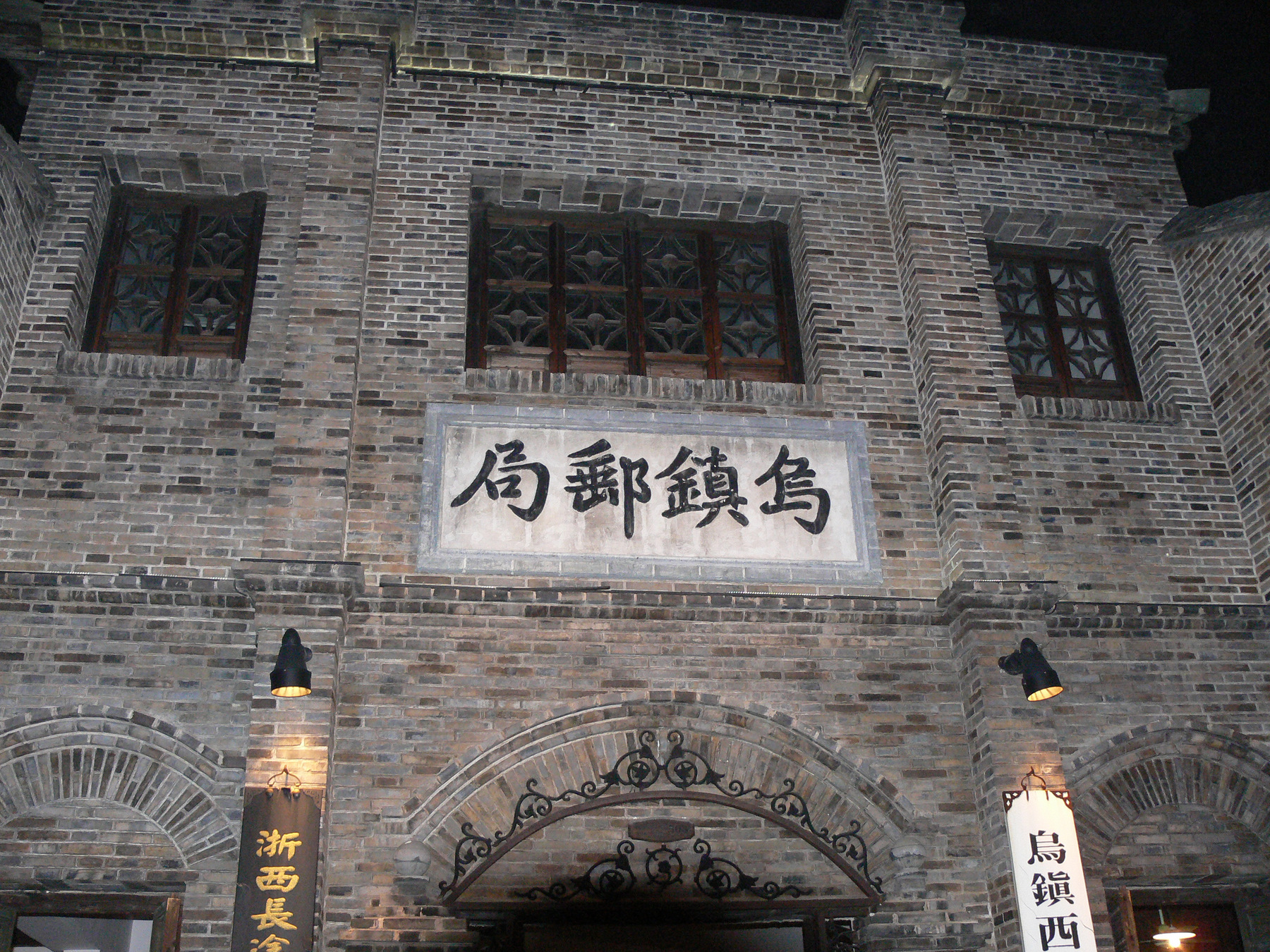 post office in Wuzhen